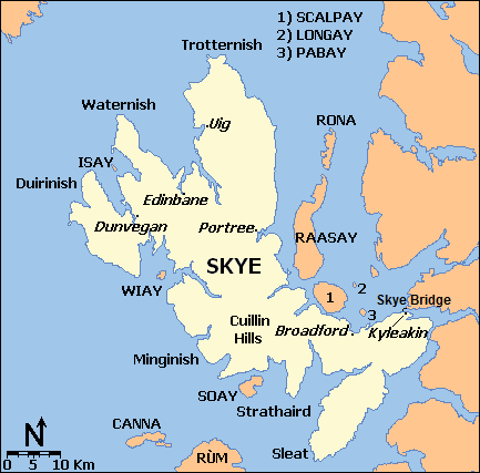 Map of the Isle of Skye and surroundings, based on a public domain original map, generated at OMC (which uses GMT,[1] an open source software licensed under GNU GPL[2]).